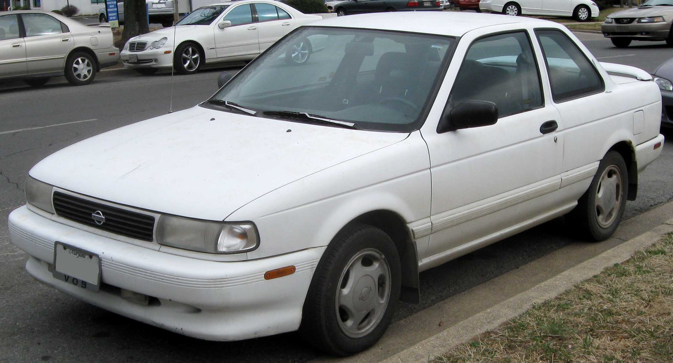 1991-1994 Nissan Sentra SE-R photographed in Silver Spring, Maryland, USA.